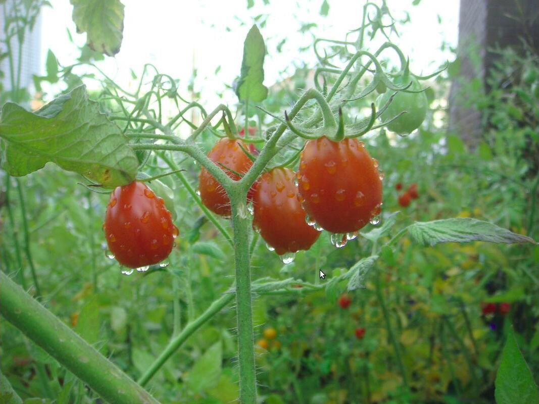 Grape tomatoes ripening on the vine.